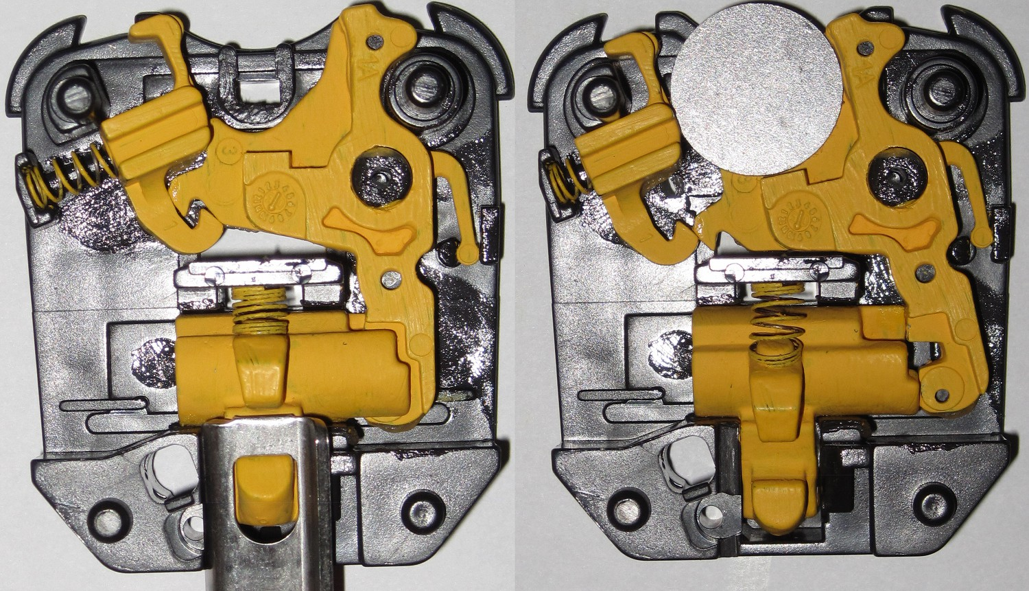 The mechanism of a Systec company, Duraloc model, shopping trolley lock. The image on the left is of the chain locked and the coin un-locked. The image on the right is of the chain un-locked and the coin locked.